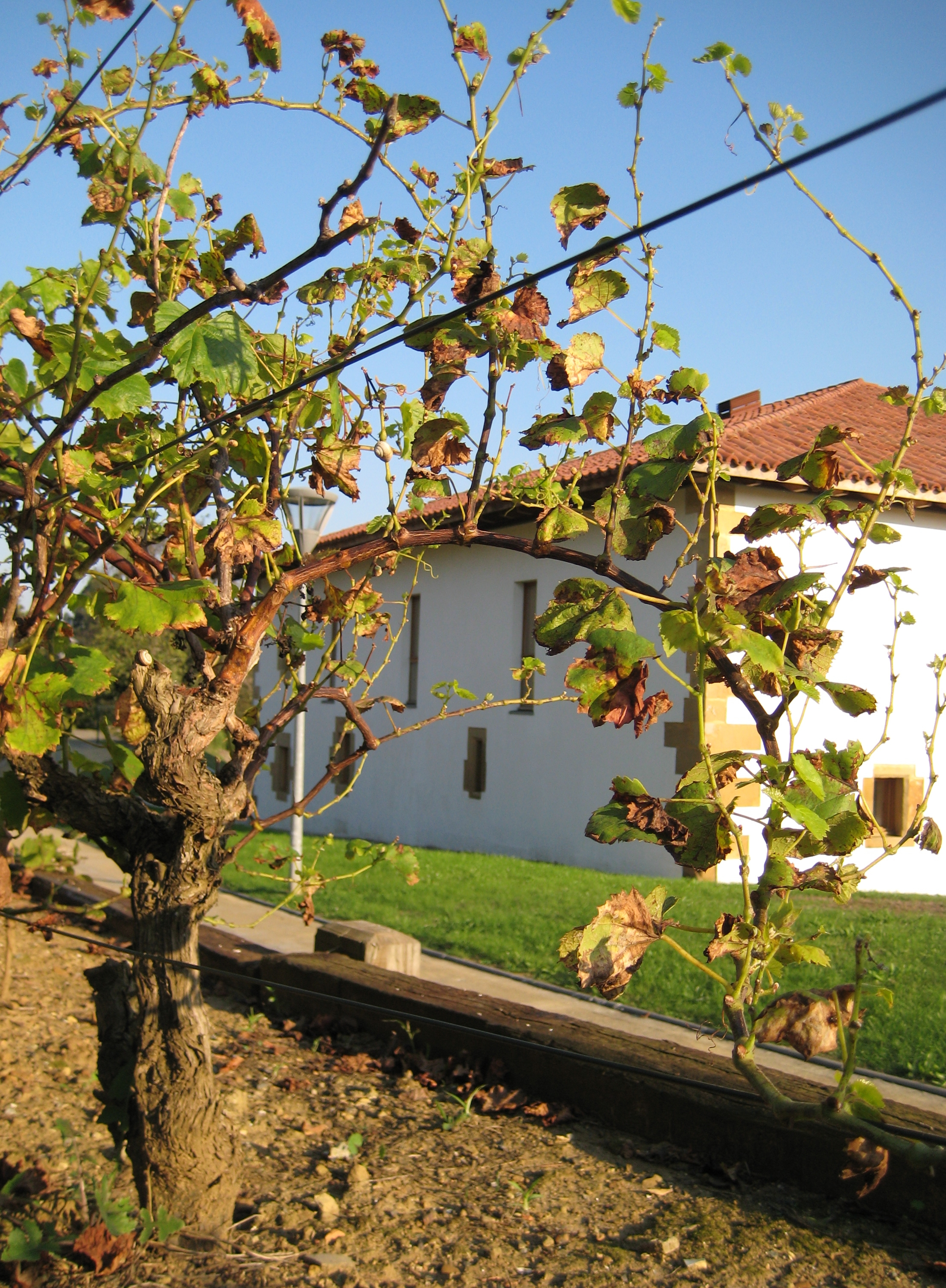 Mendibile Palace, see of the Regulating Council of Bizkaiko Txakolina (Txakoli of Biscay) Protected Designation of Origin and Museum of Txakoli, Leioa.